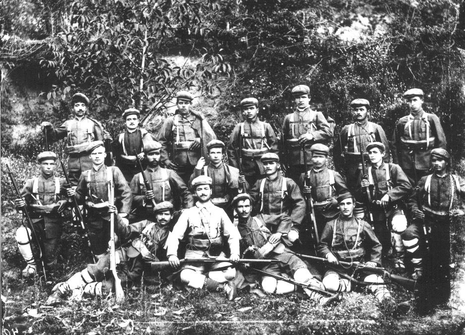 IMARO cheta of Gostivar of voevoda Nikola Panov, not to be mistaken with Veles voevoda Nikola Panov